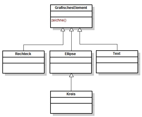 UML Class Diagram for the German Article to Liskovsches Substitutionsprinzip